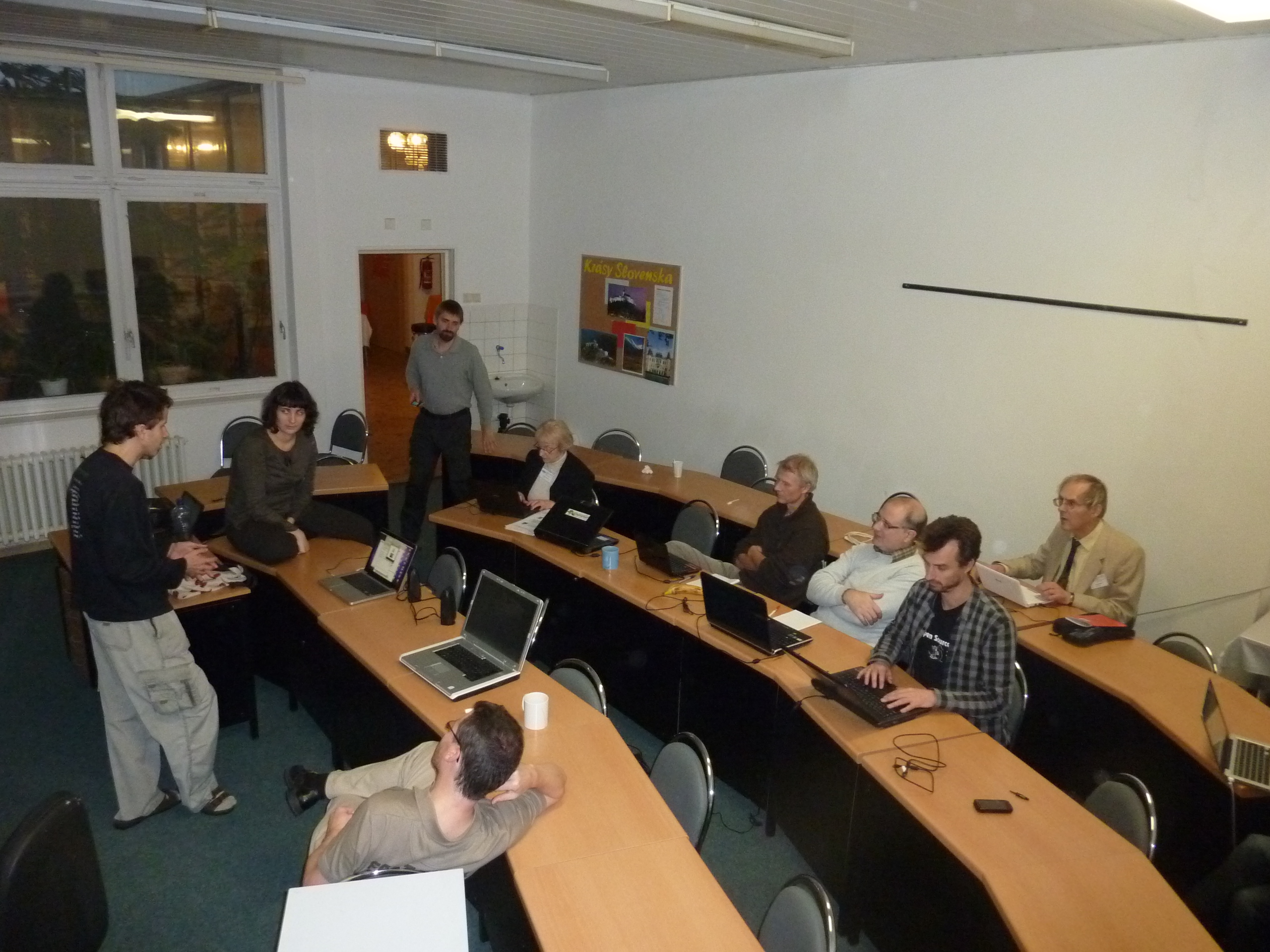 The computational linguistics colloquium following the KAEST 2010 conference organized by E@I in Modra (Slovakia).